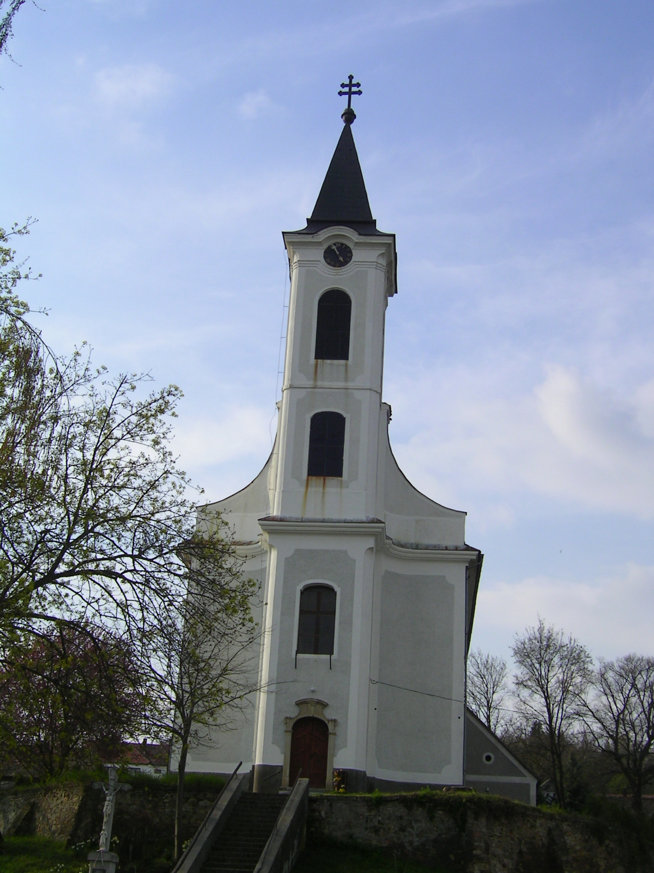 Roman catholic church in Szebény, Hungary